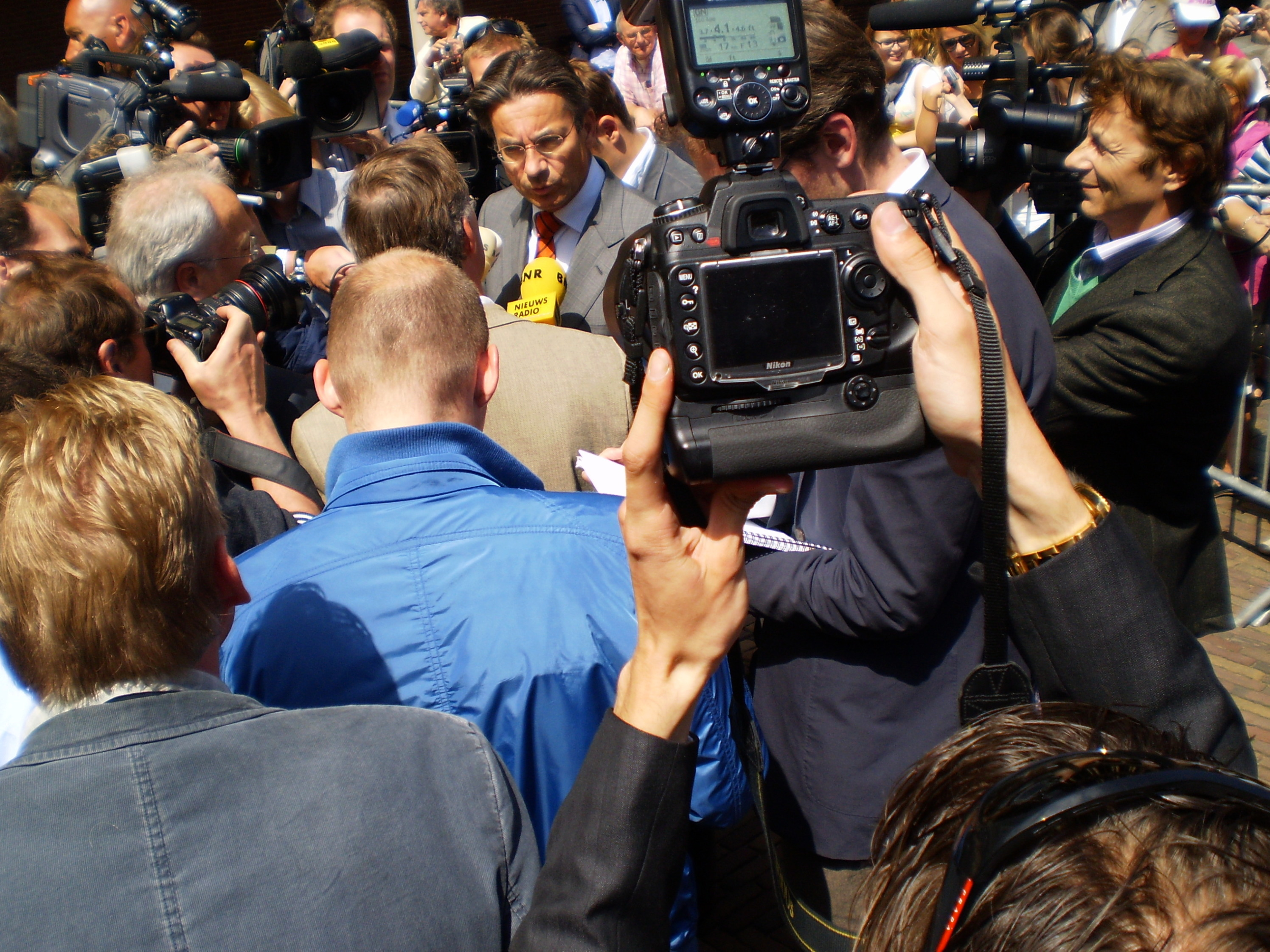 Maxime Verhagen, Dutch parliament leader of political party CDA, interviewed by the press after talks about a new government coalition